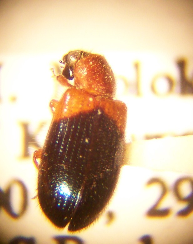 A dorsal view of the species Necrobia ruficollis, a beetle in the family Cleridae.